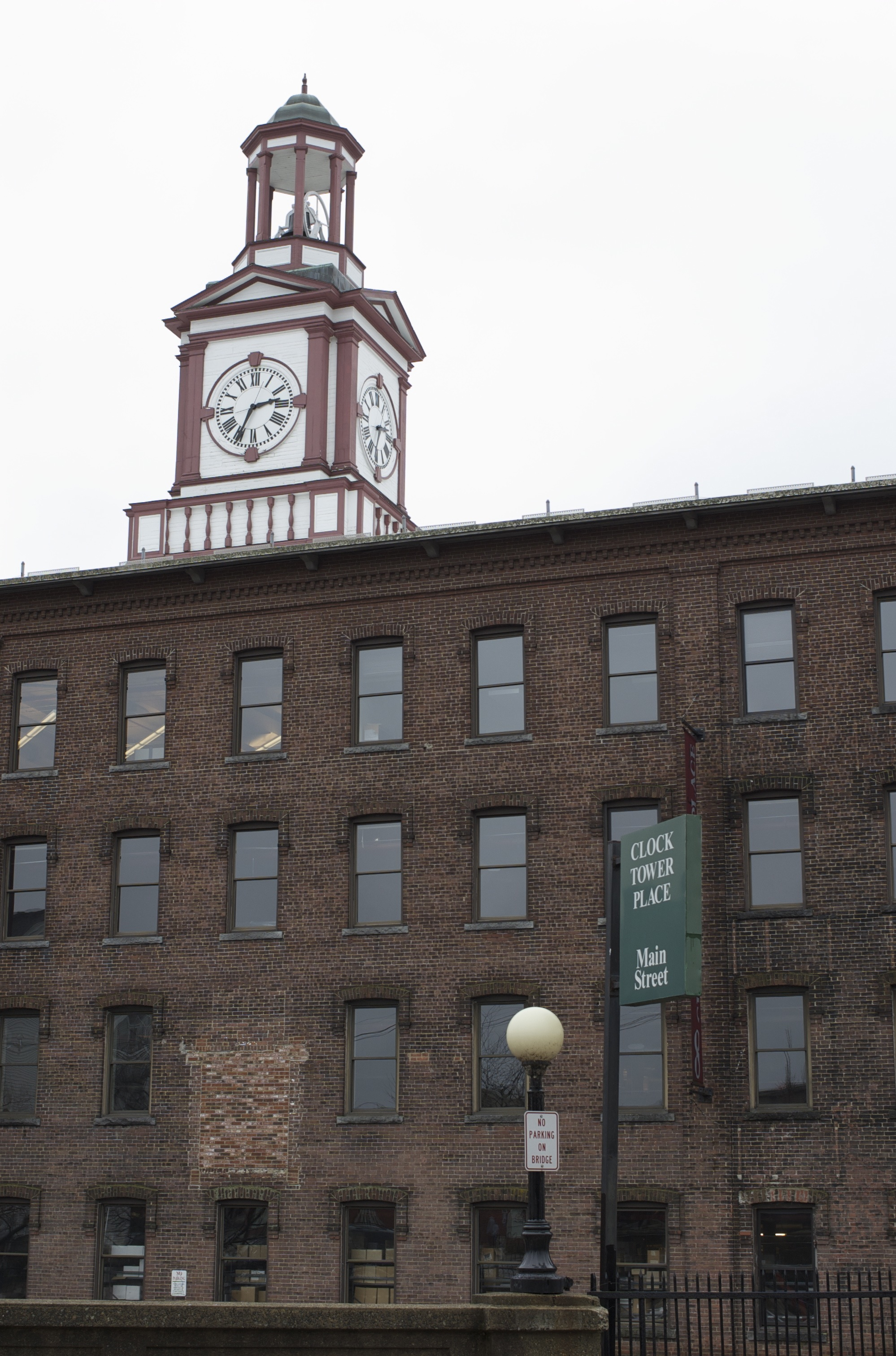 Clock Tower Place, as seen from Main St.